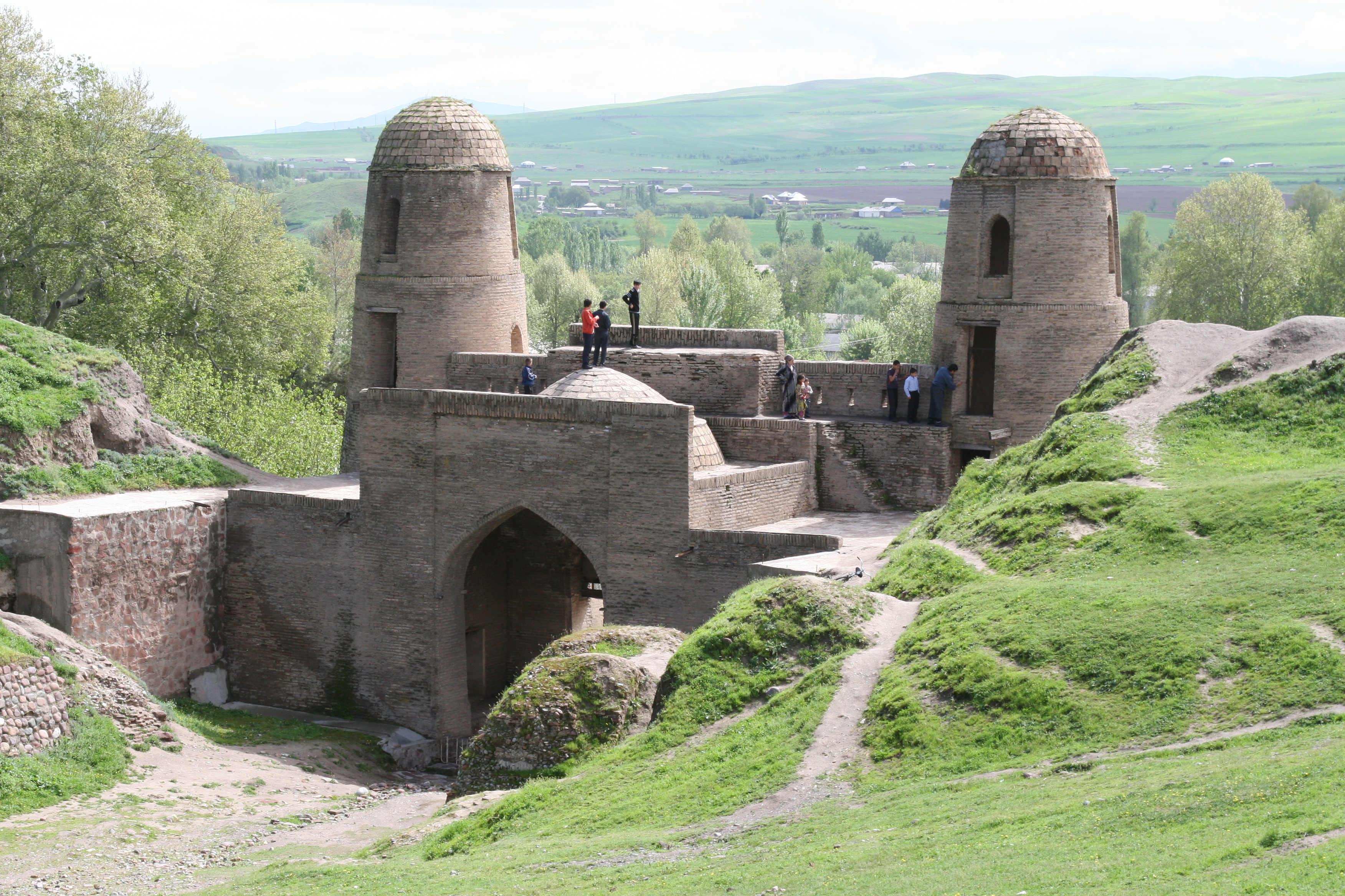 Gissar (Hisor) fortress